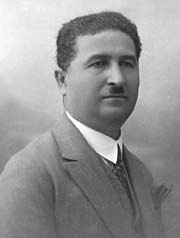 Recai Bey (Baykal)